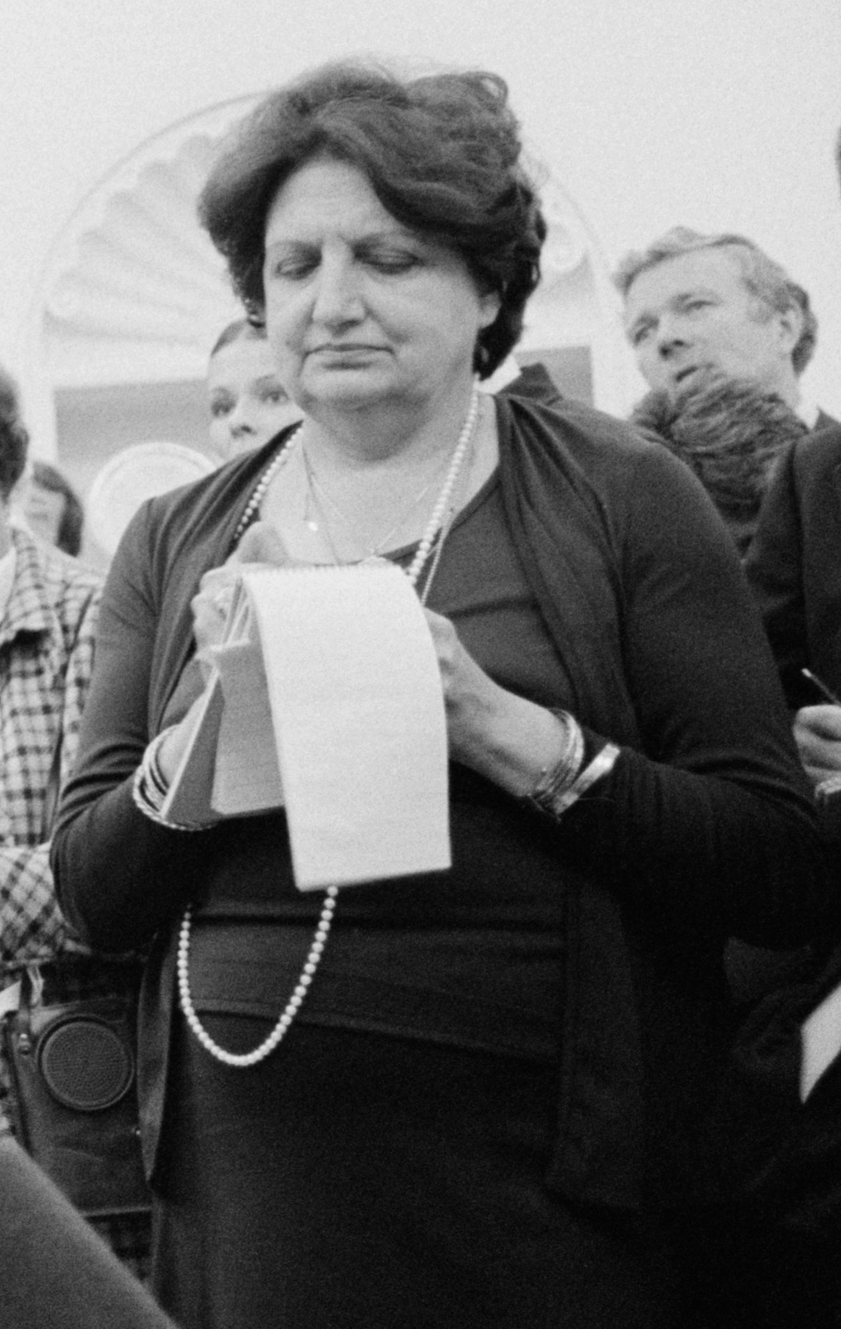 Helen Thomas, cropped from Image:Gerald_Ford_and_Helen_Thomas_-_USNWR.jpg